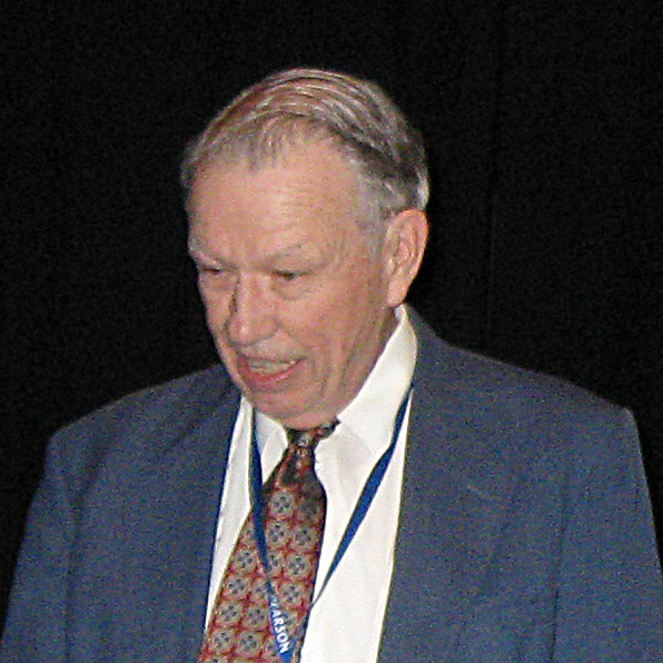 George E. Andrews, Evan Pugh Professor of Mathematics at The Pennsylvania State University. Photographed at the Joint Mathematics Meetings in Washington, DC, January 2009.